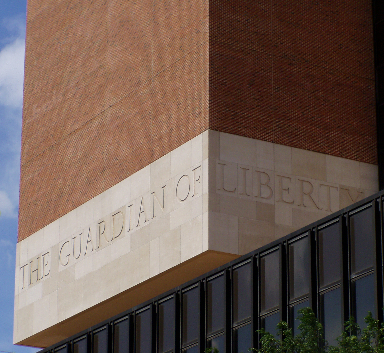 Taken in Philadelphia, Pennsylvania, in August 2002. The James A. Byrne Courthouse contains the United States District Court for the Eastern District of Pennsylvania.